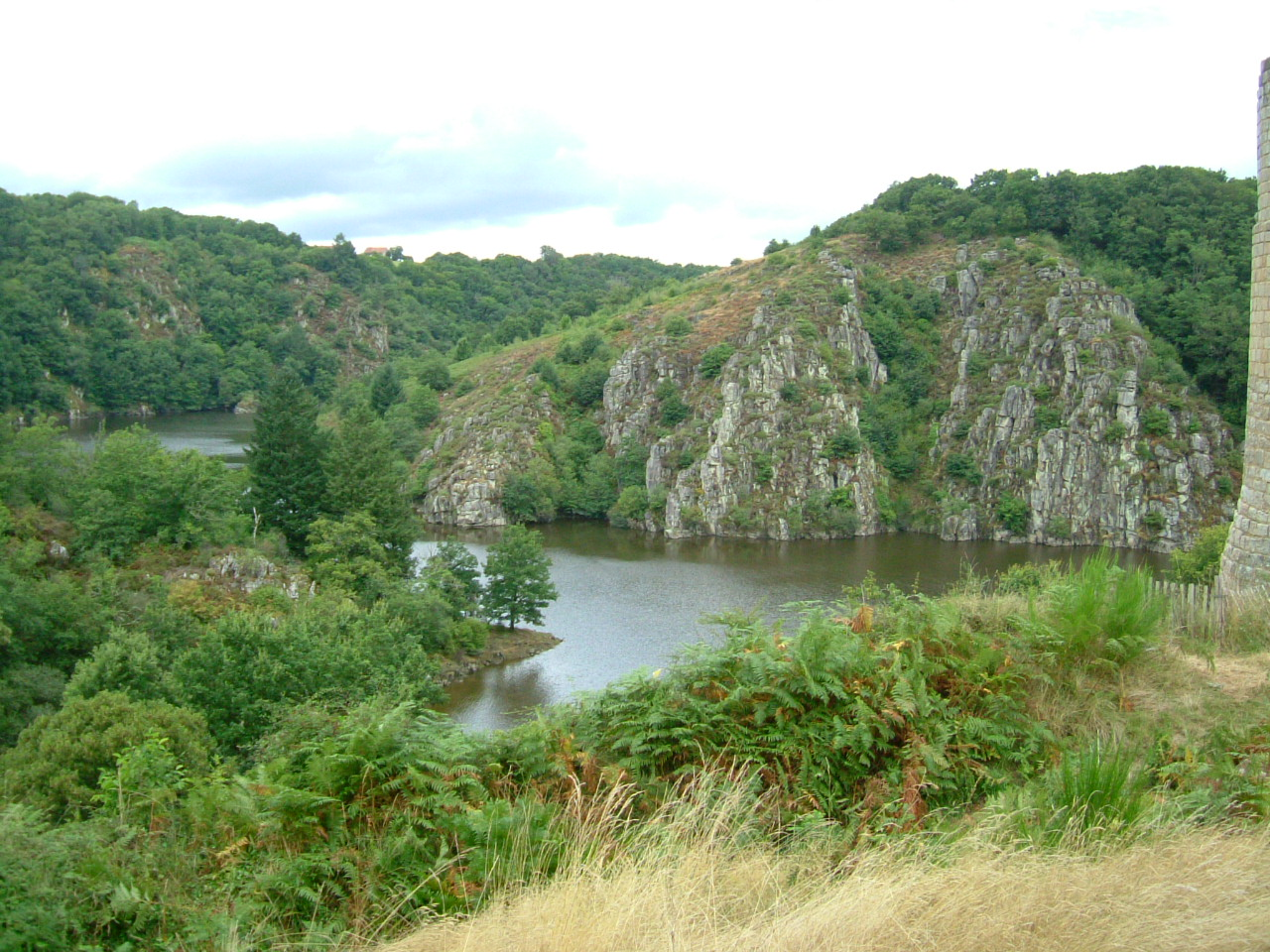 Crozant castle 26